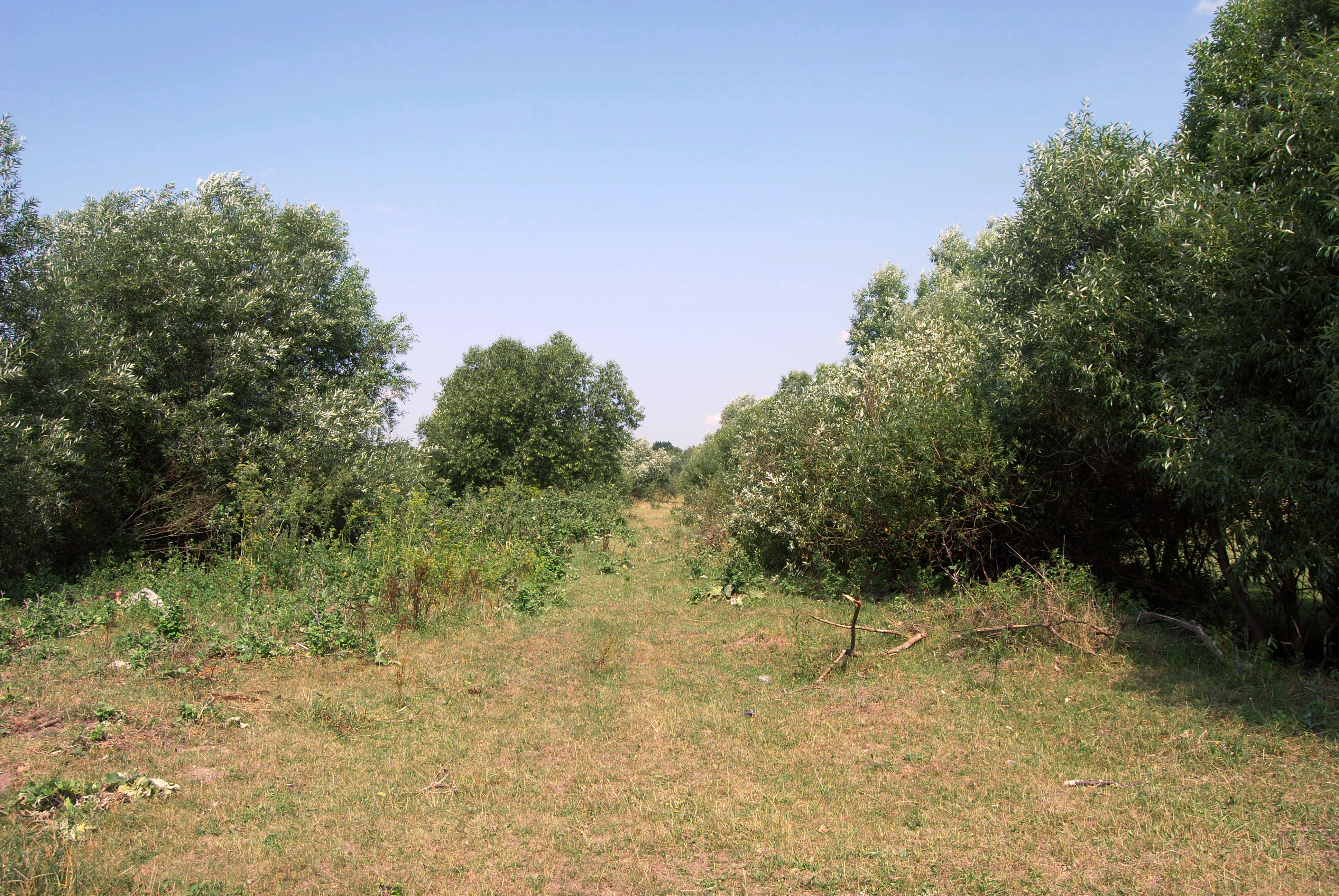 Road from Wyrka to Tur.